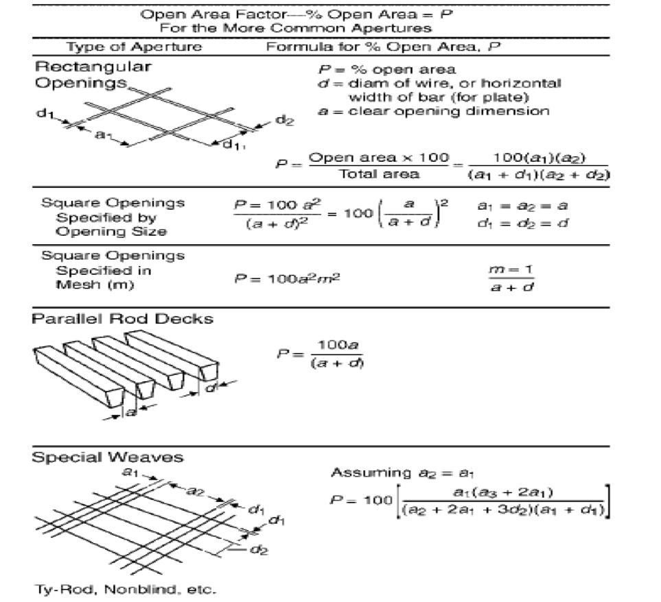 Diagram of aperture size selection